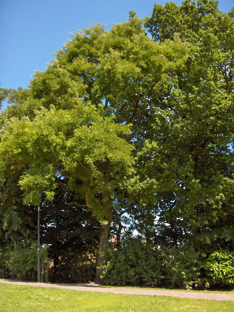 Species Styphnolobium japonicum (syn. Sophora japonica) Family Fabaceae